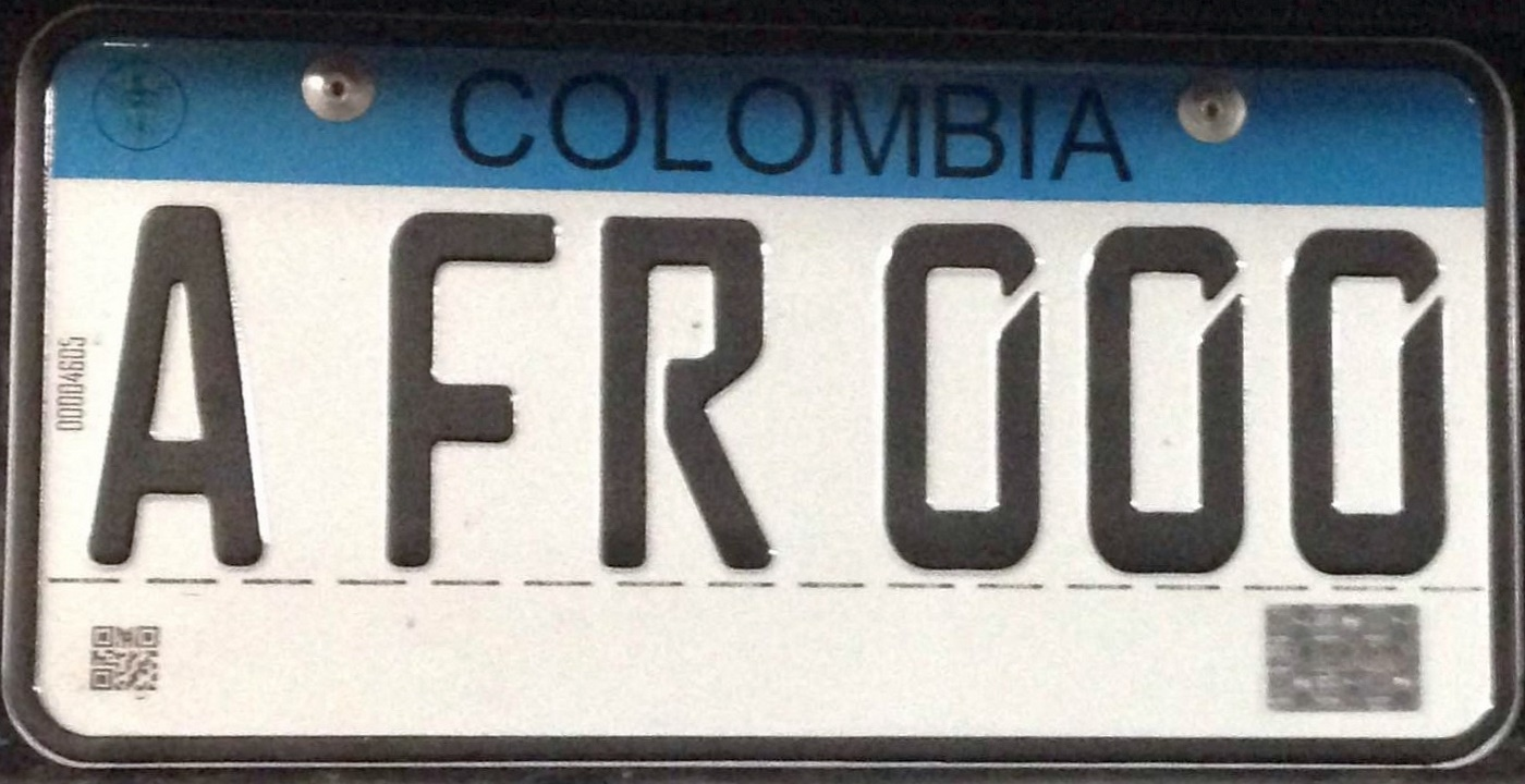 Colombian car plate for diplomatic vehicles